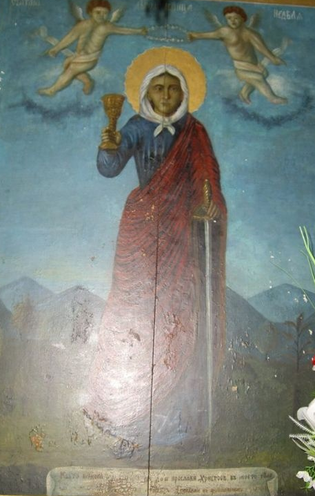 Saint Nedelya Icon in Saint Nedelya Church in Zagrade